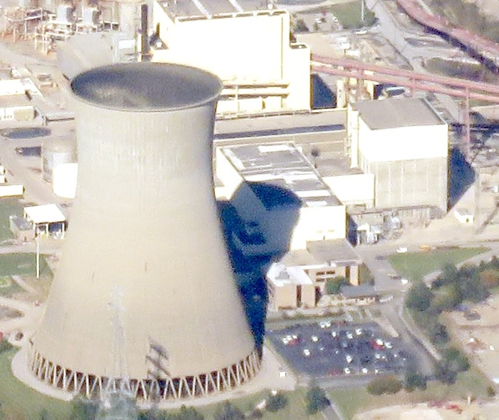 Aerial view of the reactor building at William H. Zimmer Power Station on the Ohio River in 2017.